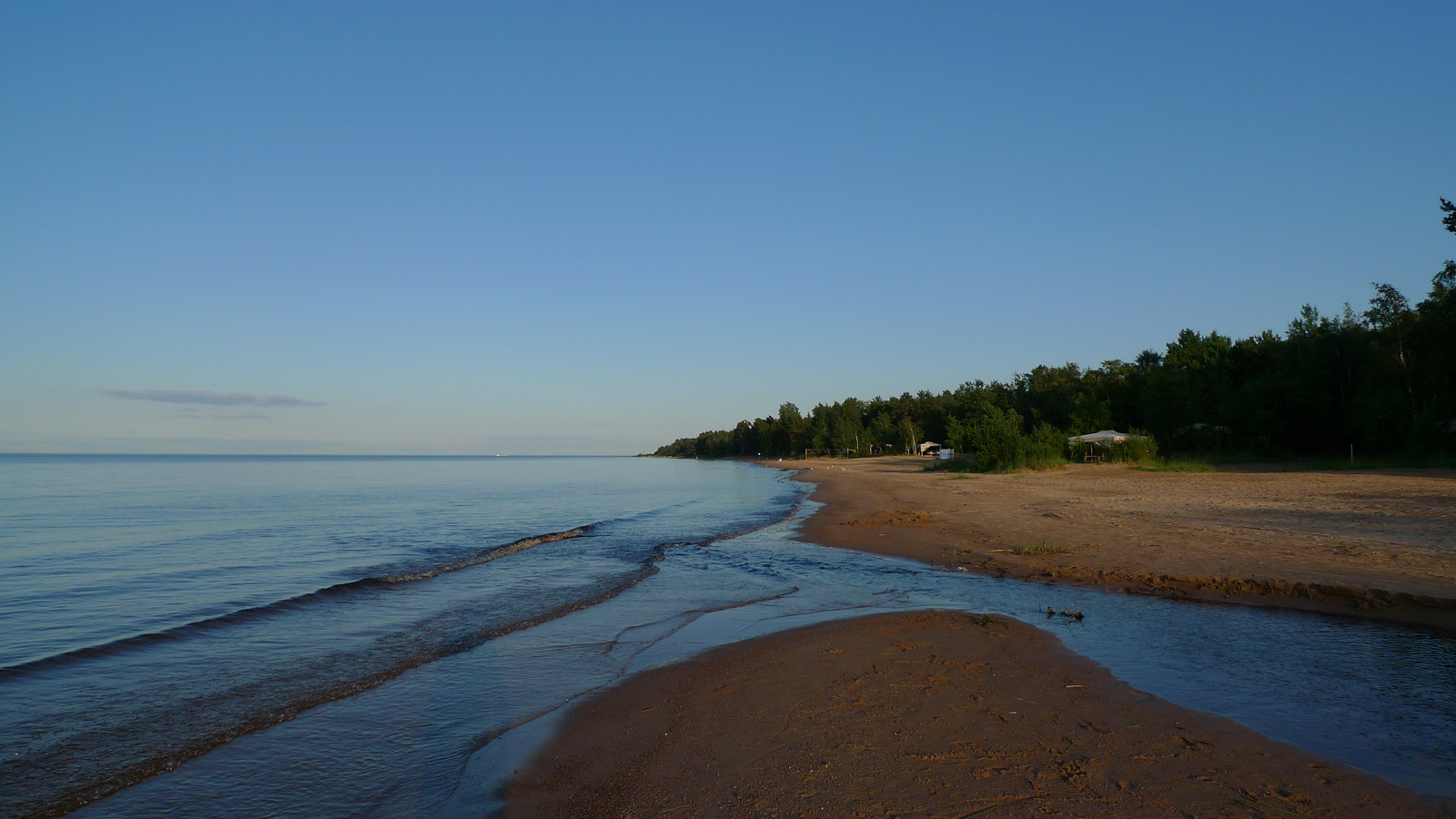 Ladoga shore near Kokkorevo village